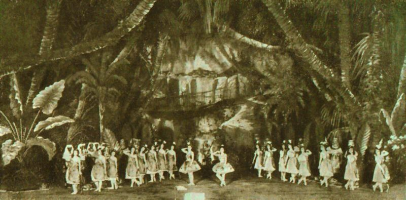 Photo of a scene from the choreographer Marius Petipa (1818-1910) & the composer Cesare Pugni's (1803-1870) 1862 ballet "The Pharaoh's Daughter". The photo shows the Grand pas des chasseresses from Act I of the ballet on the stage of the Imperial Mariinsky Theatre in Petipa's revival of 1898. In the center can be seen the ballerinas (right) Mathilde Kschessinskaya (1871-1970) in the role of the Princess Aspicia, and (left) Olga Preobrajenskaya (1871-1962) in the role of the slave Ramzé.